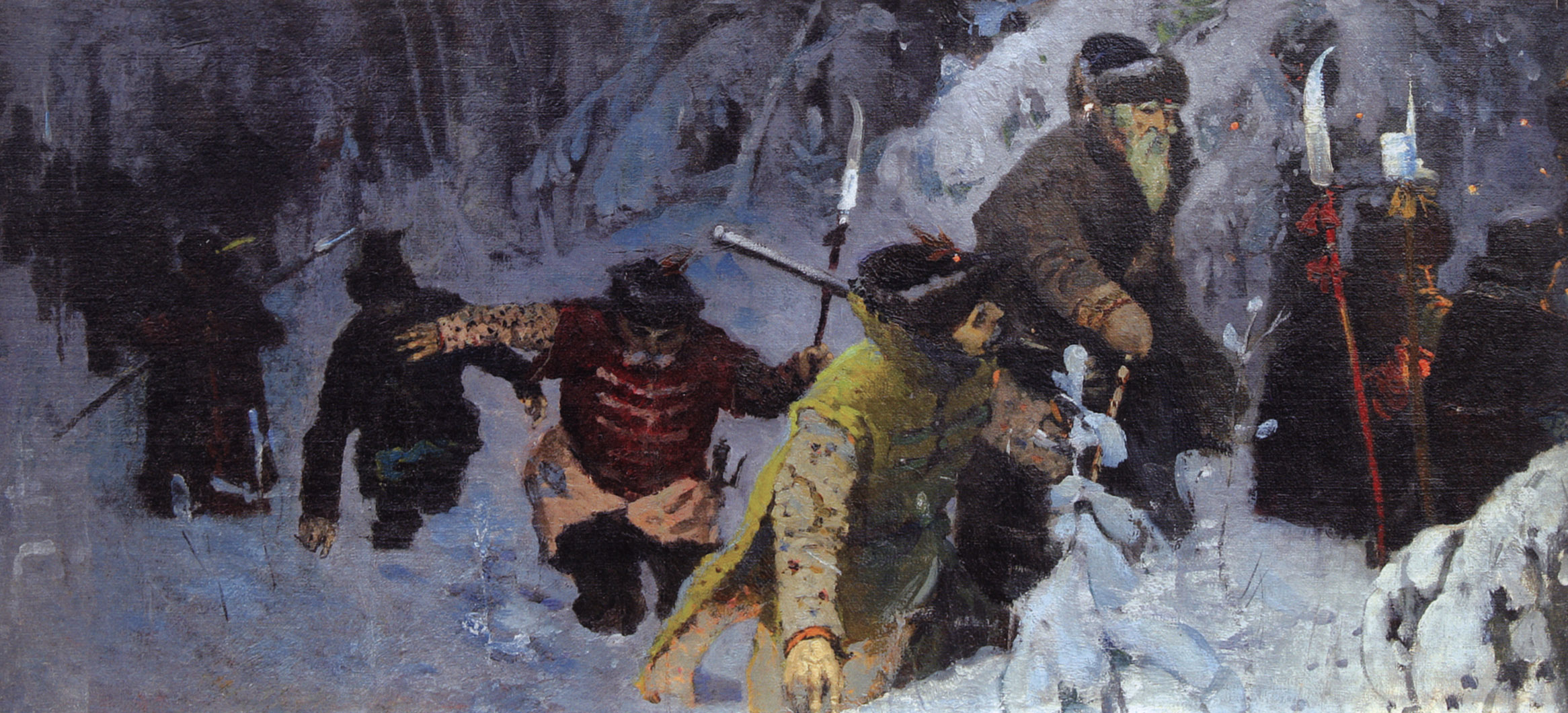 Ivan Susanin